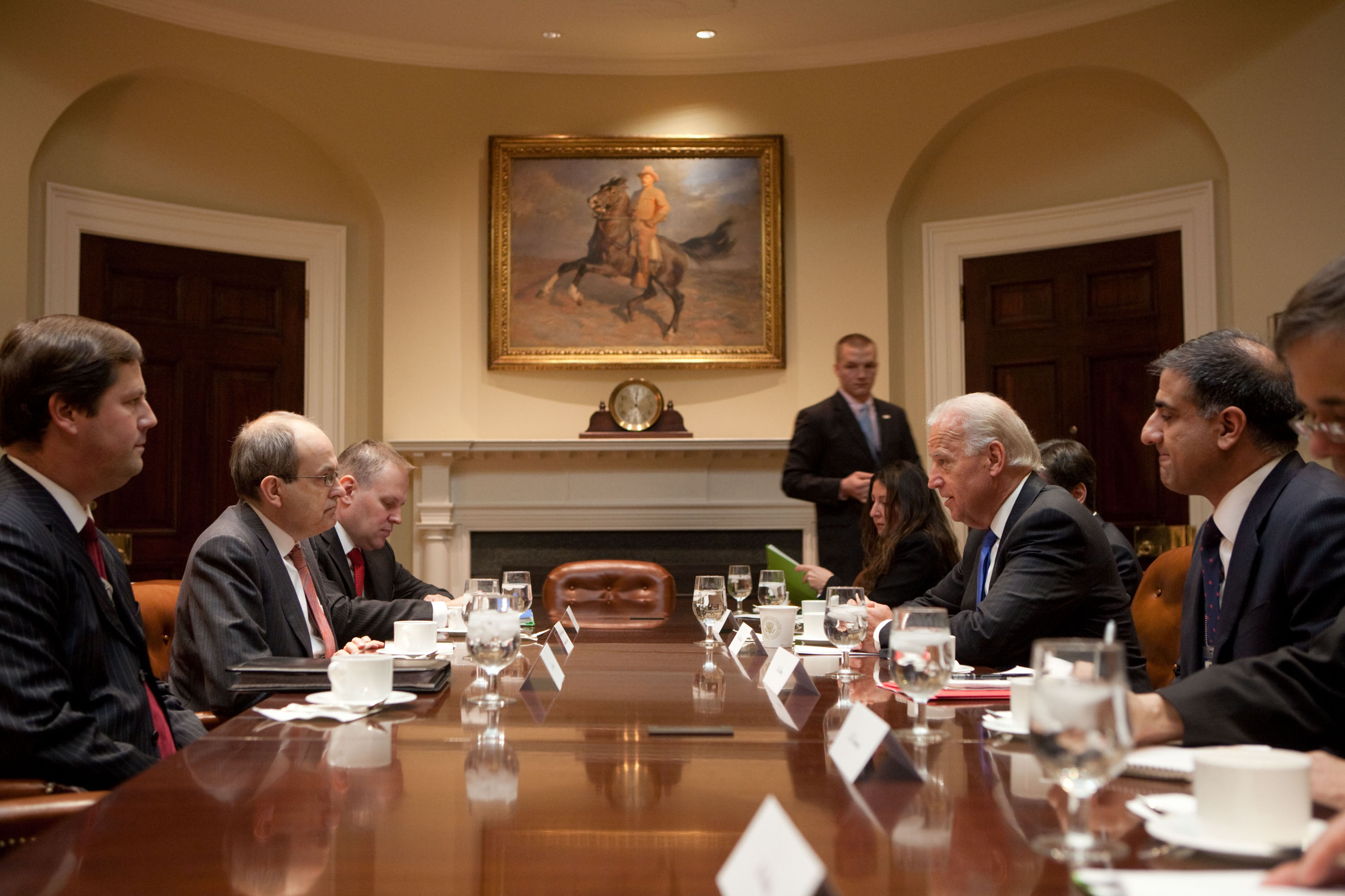 Vice President Joe Biden meets with U.N Special Representative for Iraq Ad Melkert, second from left, in the Roosevelt Room of the White House, Jan. 5, 2010.